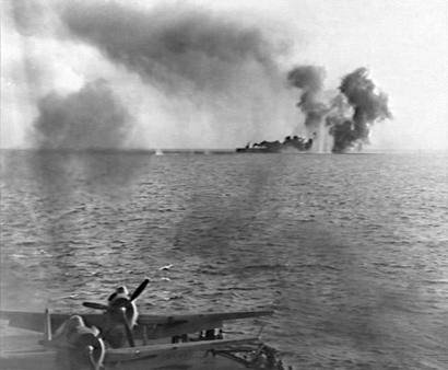 Just after 0700 hrs the sea around the U.S. Navy escort carrier USS White Plains (CVE-66) erupts as she is straddled and near missed by 14 inch gunfire from Japanese battleships which have surprised the escort carrier Task Group 77.4.3. In the foreground is the flight deck of her sister ship, USS Kitkun Bay (CVE-71) with two Grumman TBF Avenger aircraft.